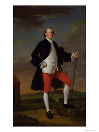 John Manners Marquis of Granby - Official Portrait by Allan Ramsay